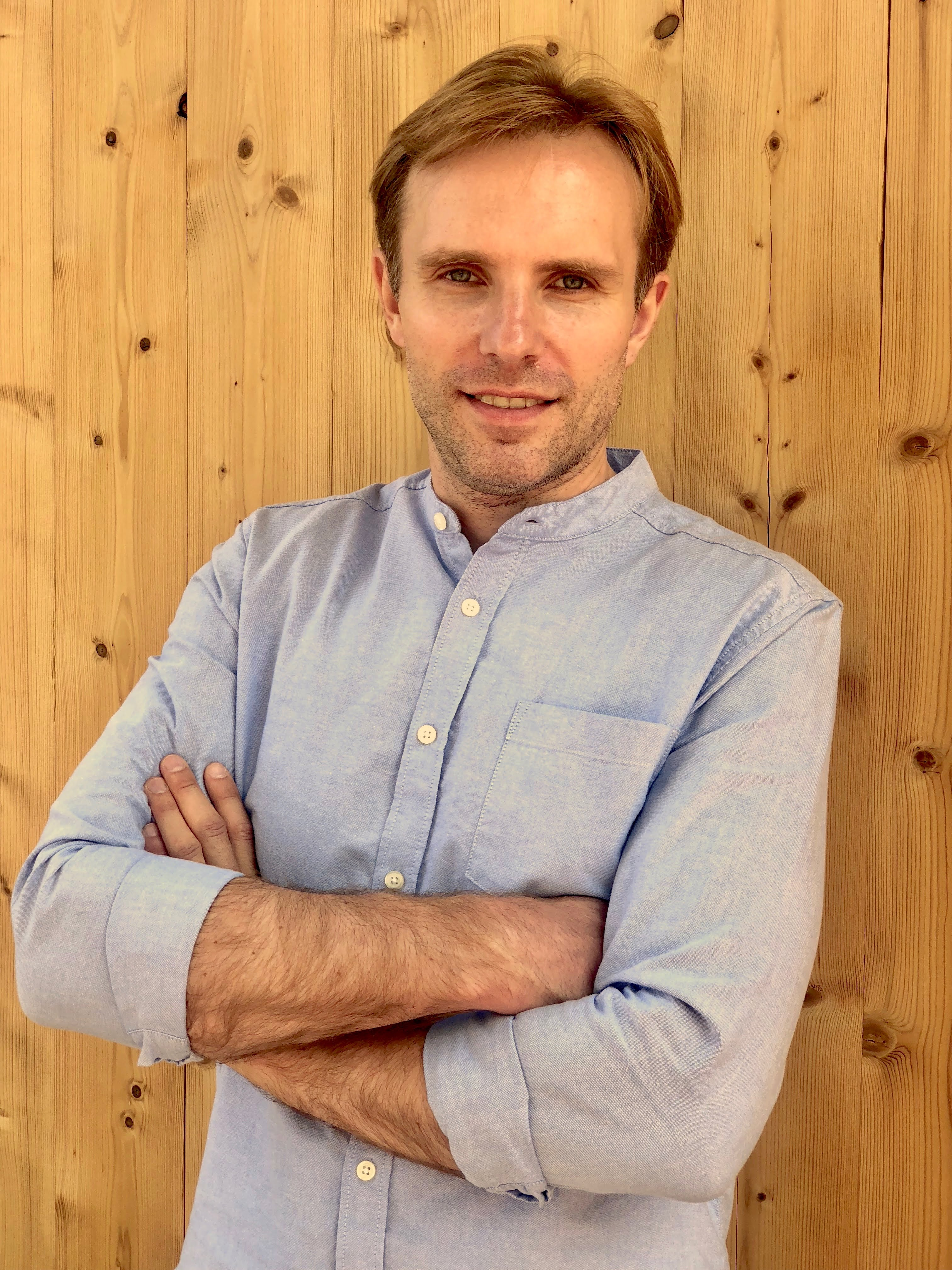 Bartosz Karaszewski